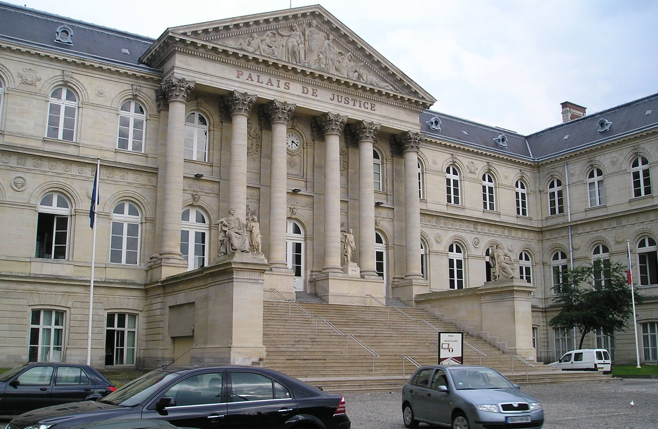 Amiens Court .